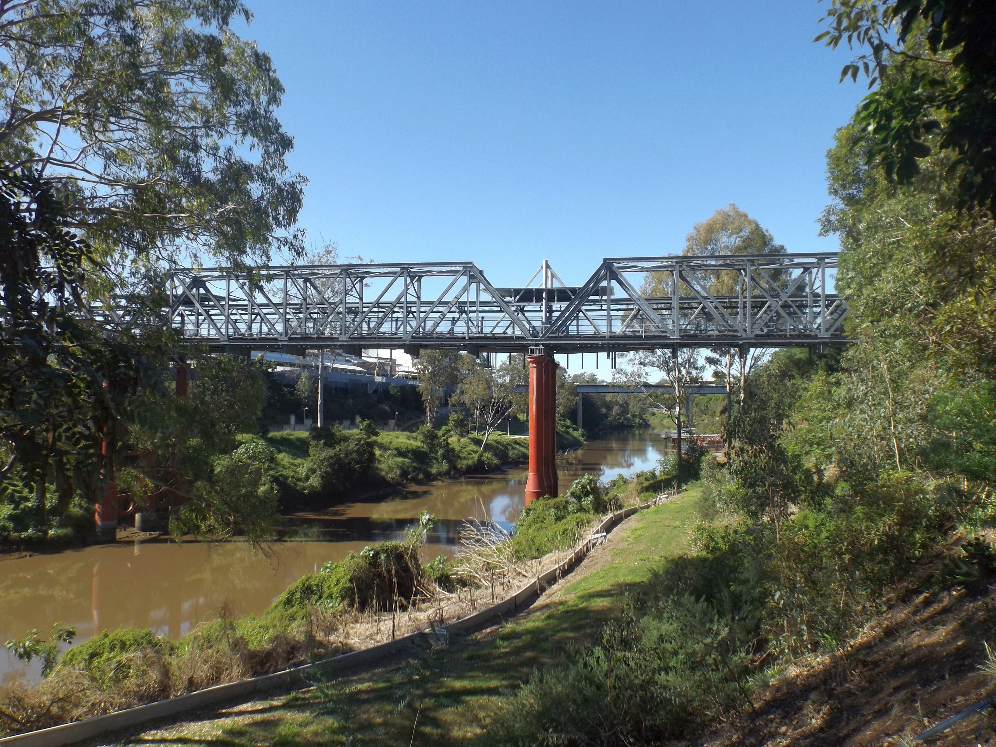 Photo of Bremer River Rail Bridge at North Ipswich in the City of Ipswich, Queensland, Australia.